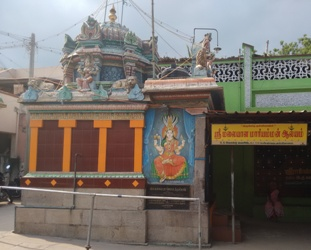 Kumbakonam malayala mariamman temple கும்பகோணம் மலையாள மாரியம்மன் கோயில்